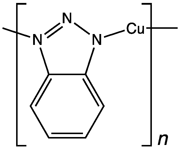 chemical structure of Cu-benzotriazole polymer